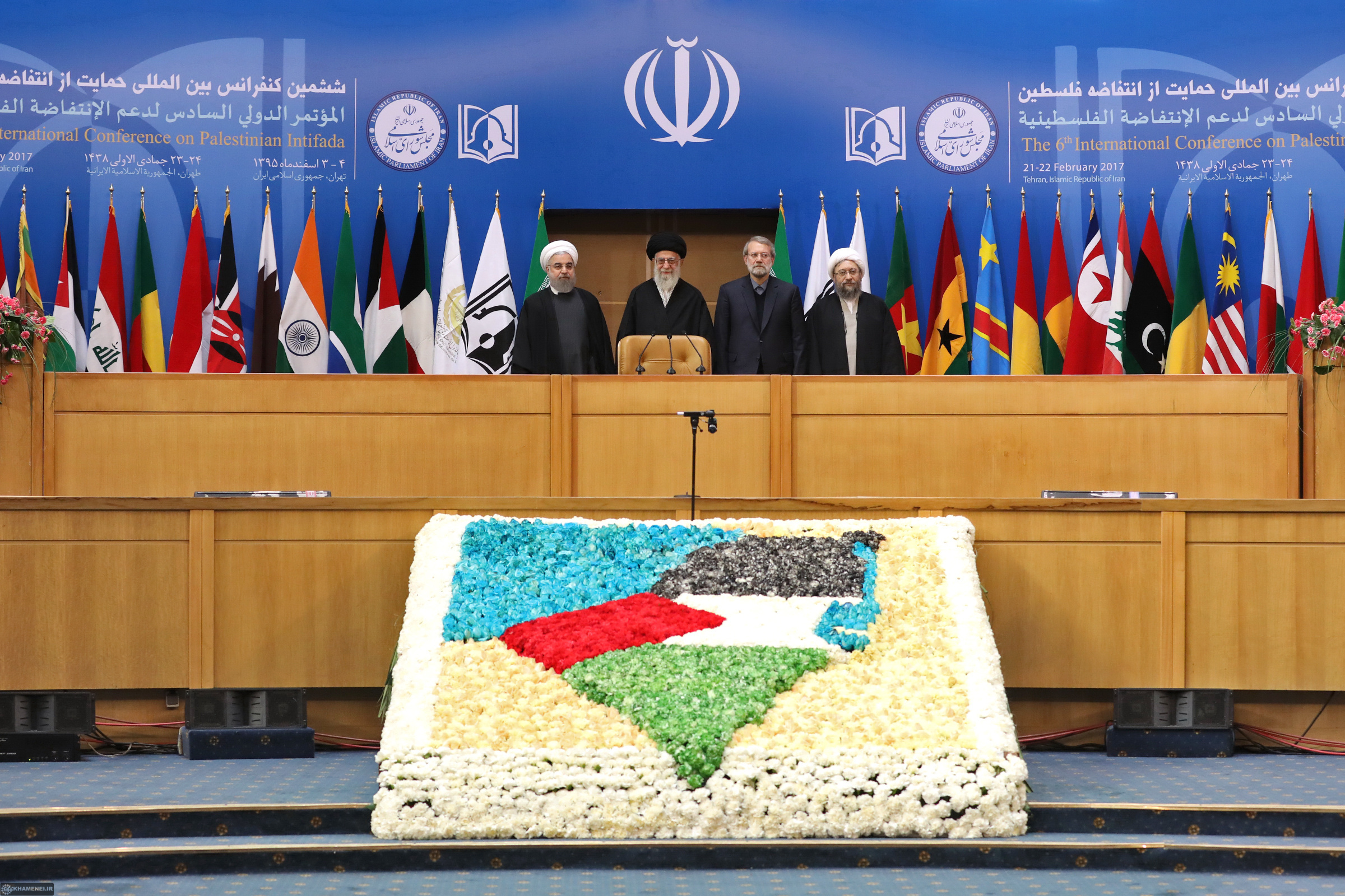 Sixth International Conference in Support of the Palestinian Intifada, Tehran